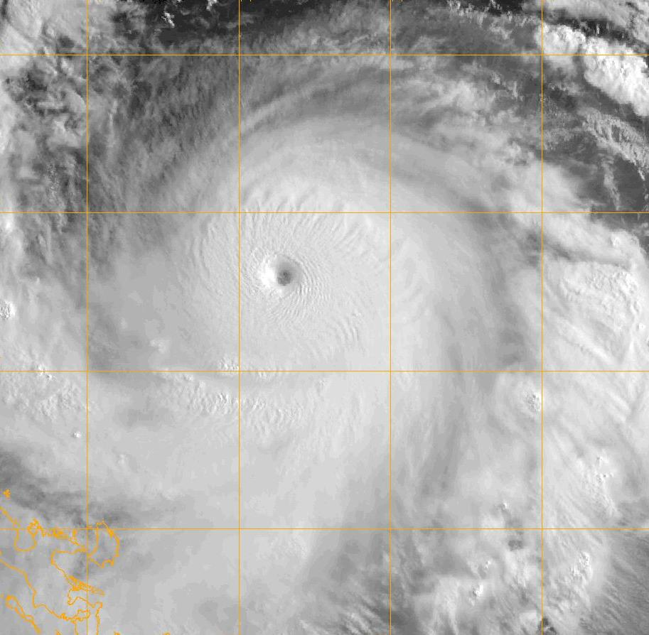 GMS-6 visible satellite image taken on August 15, 2007 at 2312 UTC of Typhoon Sepat, cropped from original image.